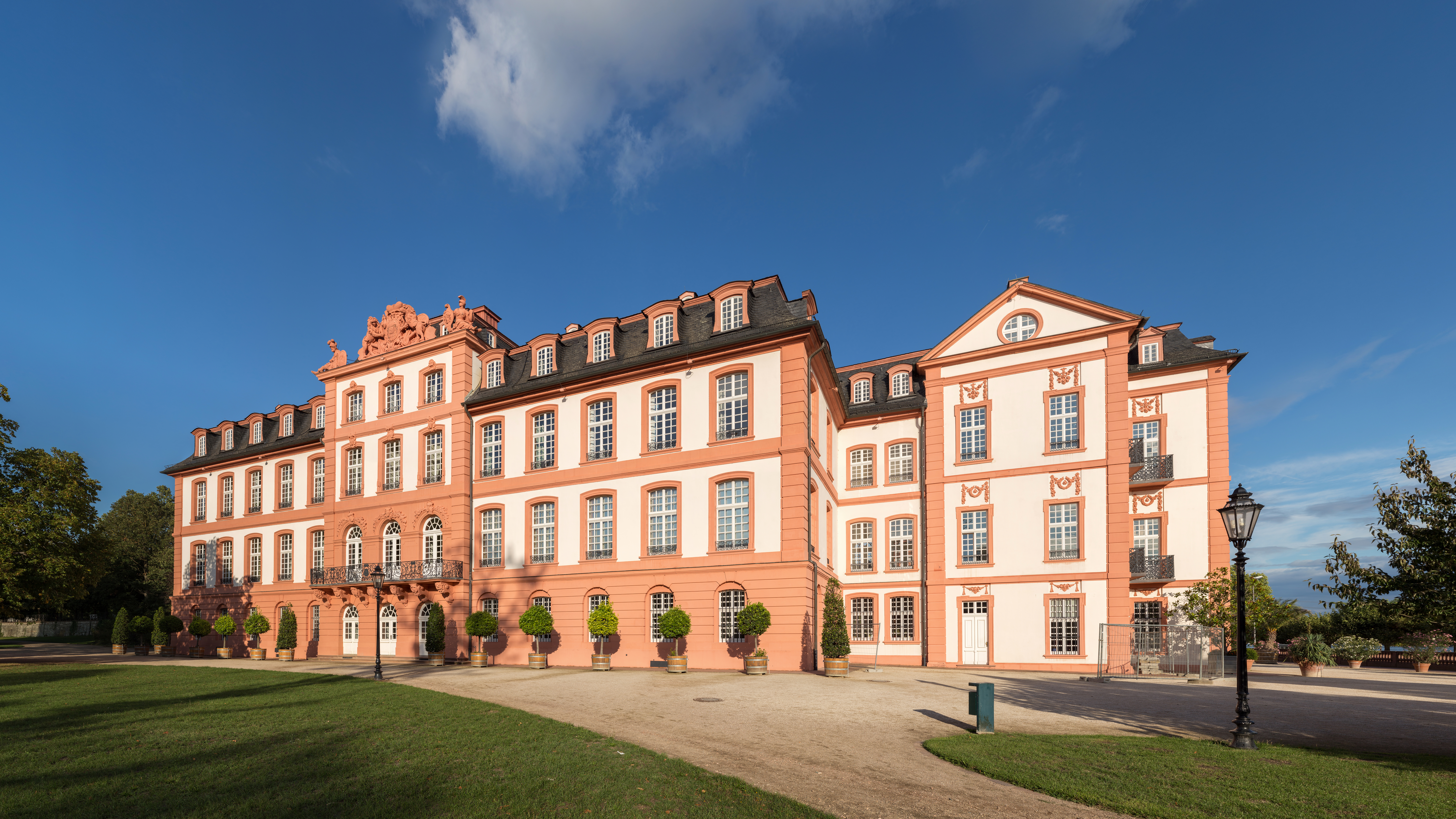 West wing of Biebrich Palace as seen from west.